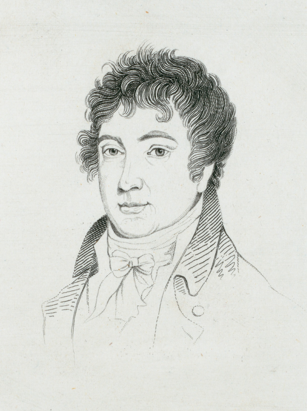 Illustrated by Thomas Addis Emmet, 1880. Volume 2 consists of pages 1-99 of the 1865, quarto, edition of the work, volume 3 of pages 99-213, volume 5 of pages 303-400. Citation/Reference: EM12707